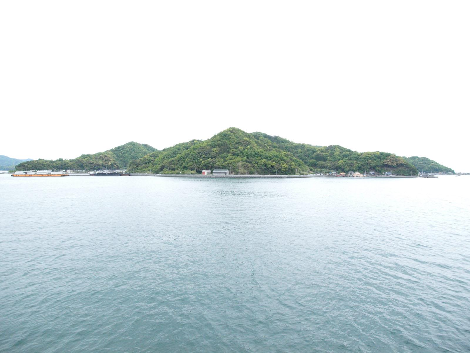 Ohnyujima Island, Saiki, Oita, Japan